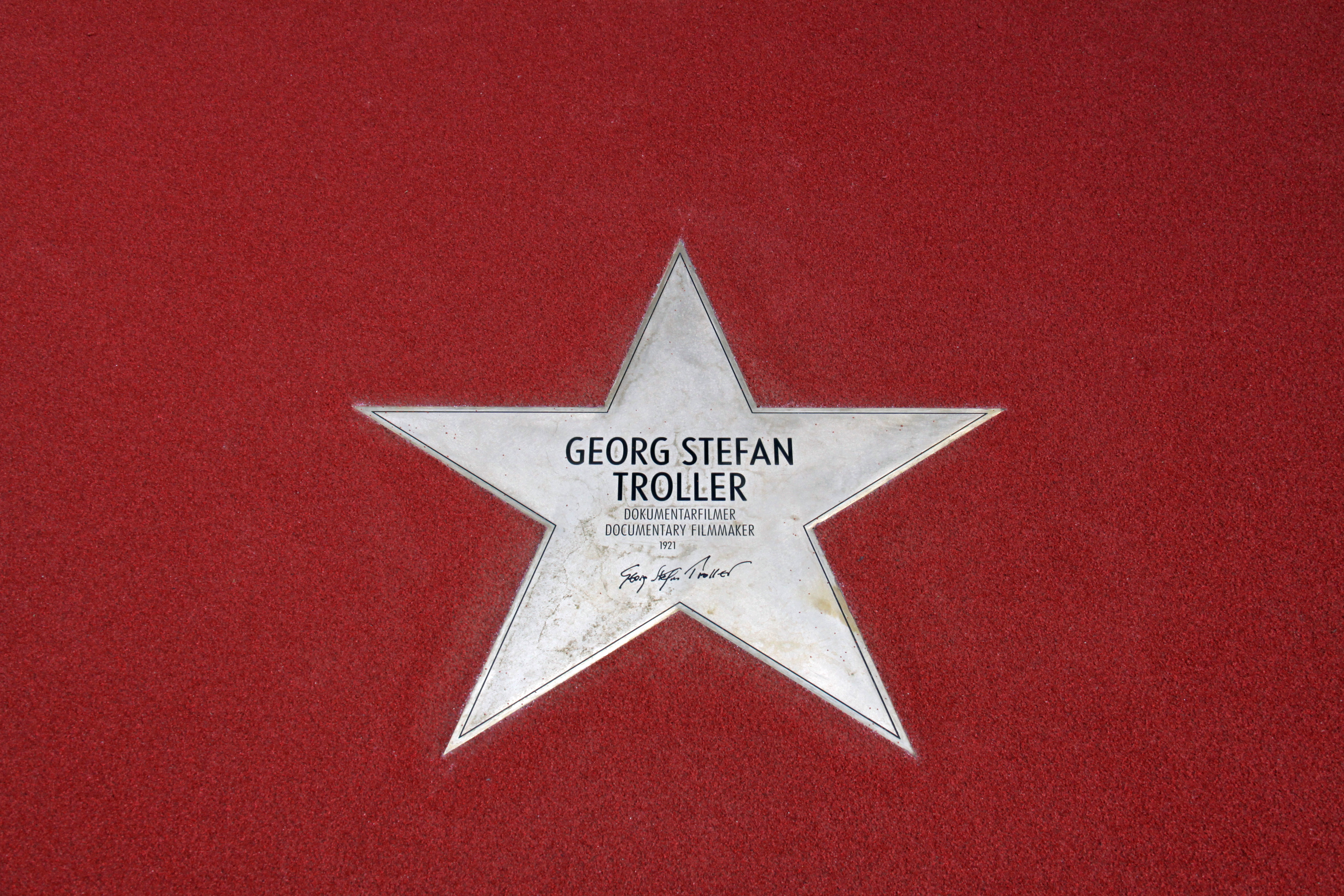 Star of Georg Stefan Troller at the "Boulevard der Sterne" in Berlin